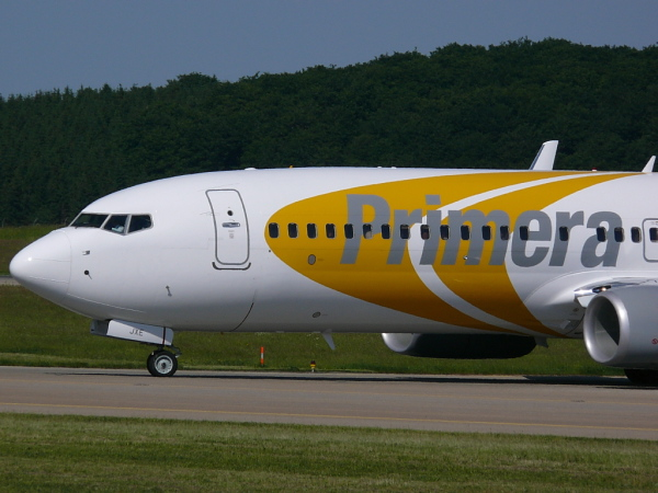 A Boeing 737-800 belonging to Primera Air. Taken at Malmö Airport, Sweden.